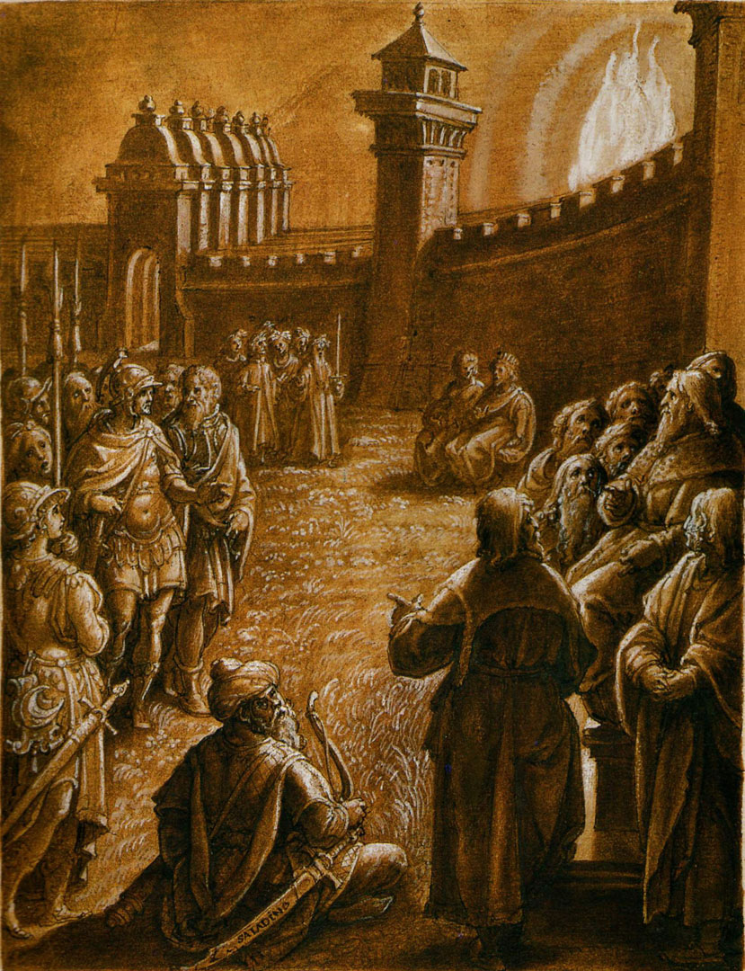 Illustration of Dante's Inferno, Canto 4